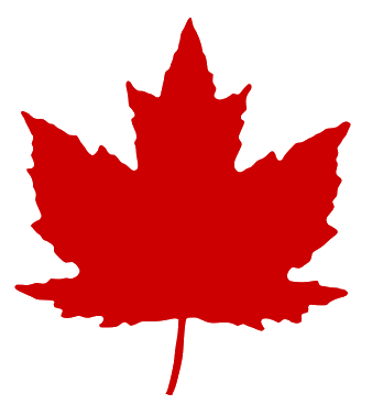 roundel adopted by Royal Canadian Air Force, from 1946 to 1965.